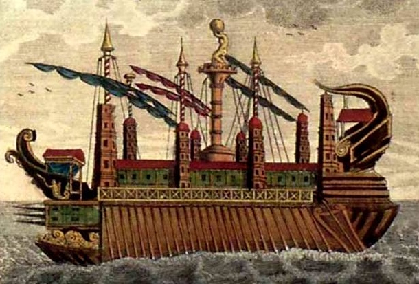 An exaggerated depiction of the Syracusia, a large cargo and passenger transport ship of Ancient Greece and one of the largest of antiquity.